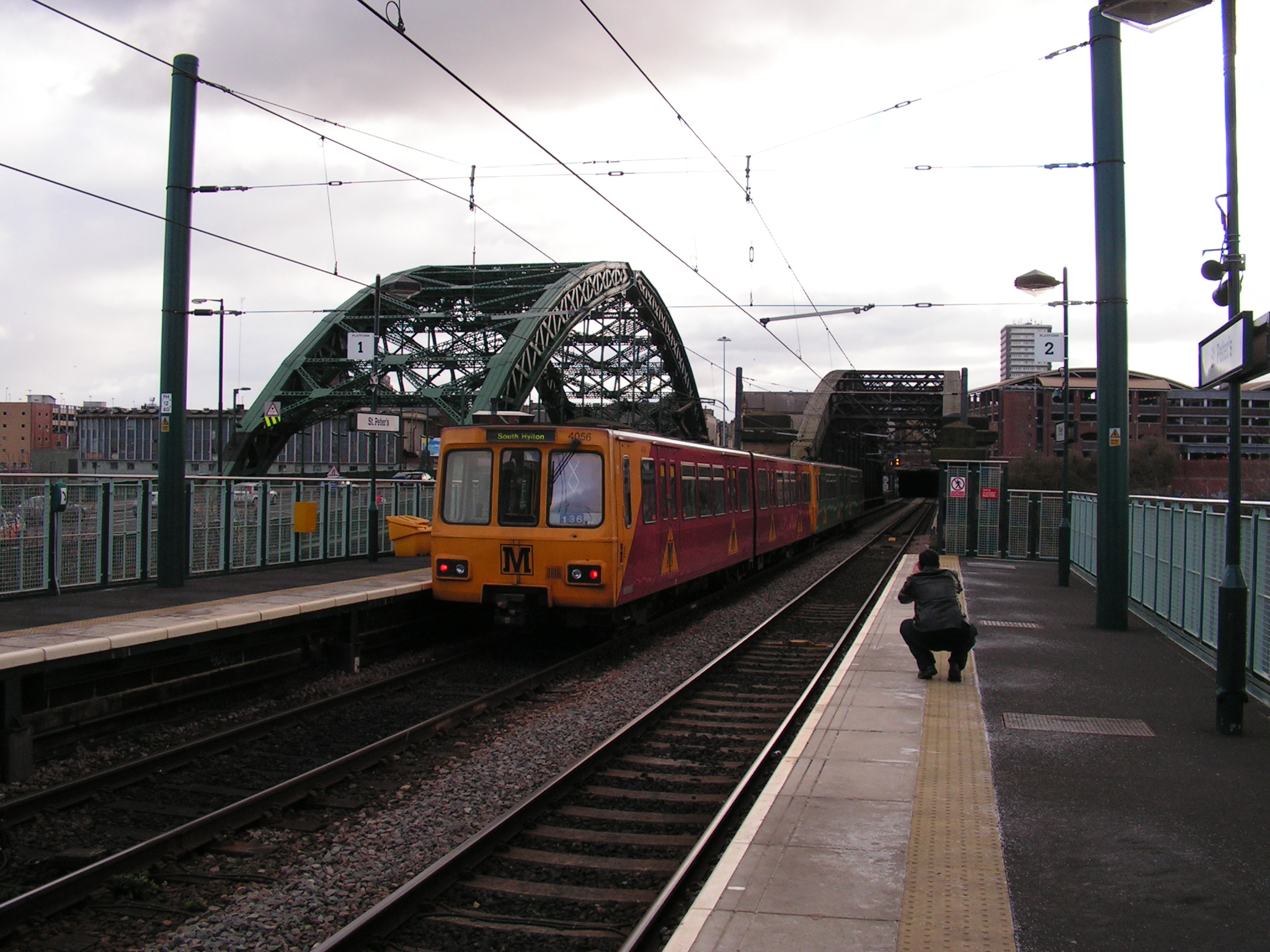 Tyne and Mear Metro 4056 at St Peters